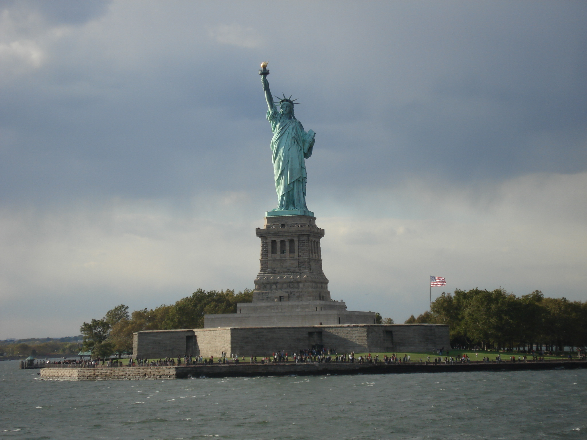 Landscape photo of Statue of Liberty in the afternoon